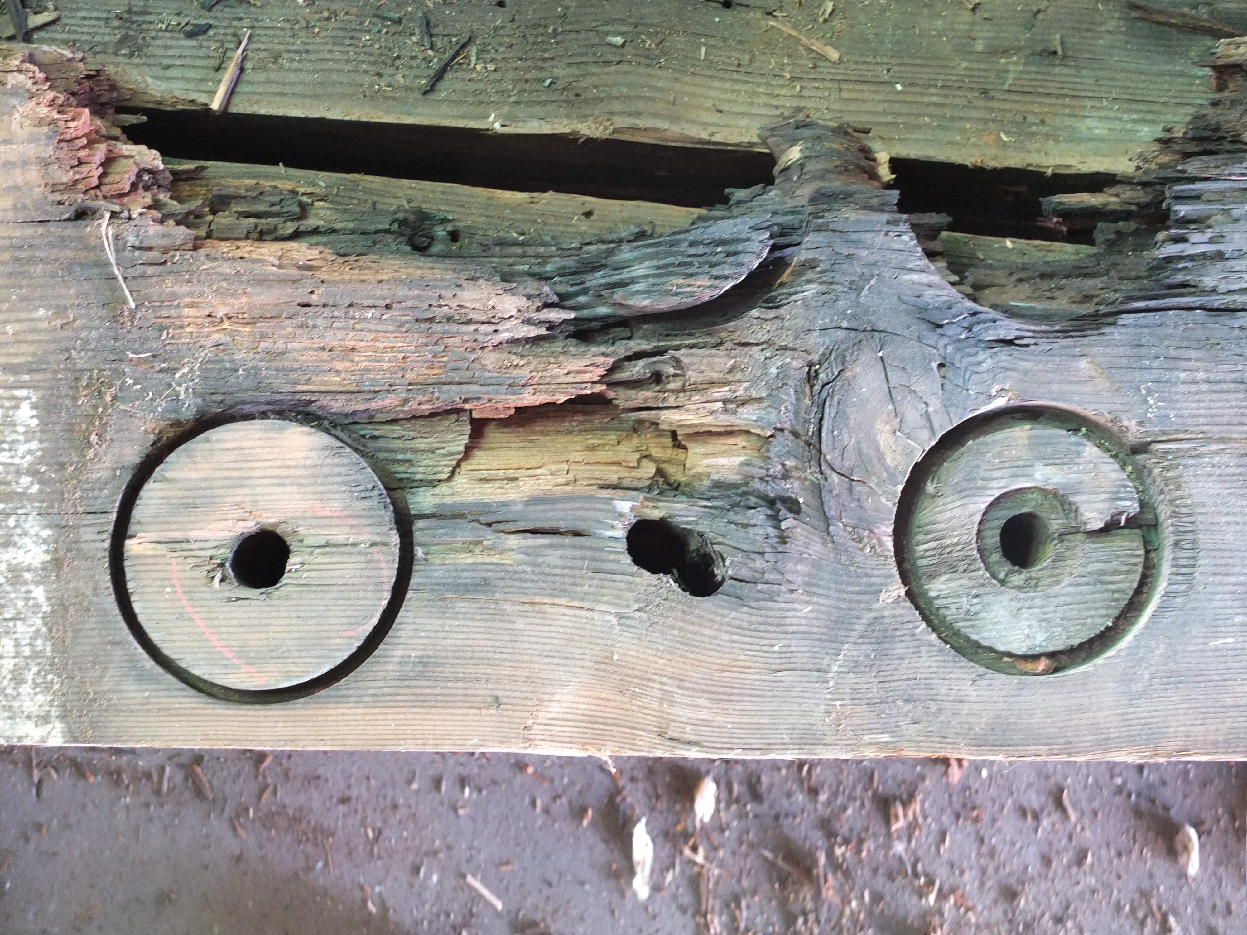 This image shows a deteriorated piece of timber framing showing circular grooves at the locations where split-ring connectors were previously installed to fasten adjacent members to one another.